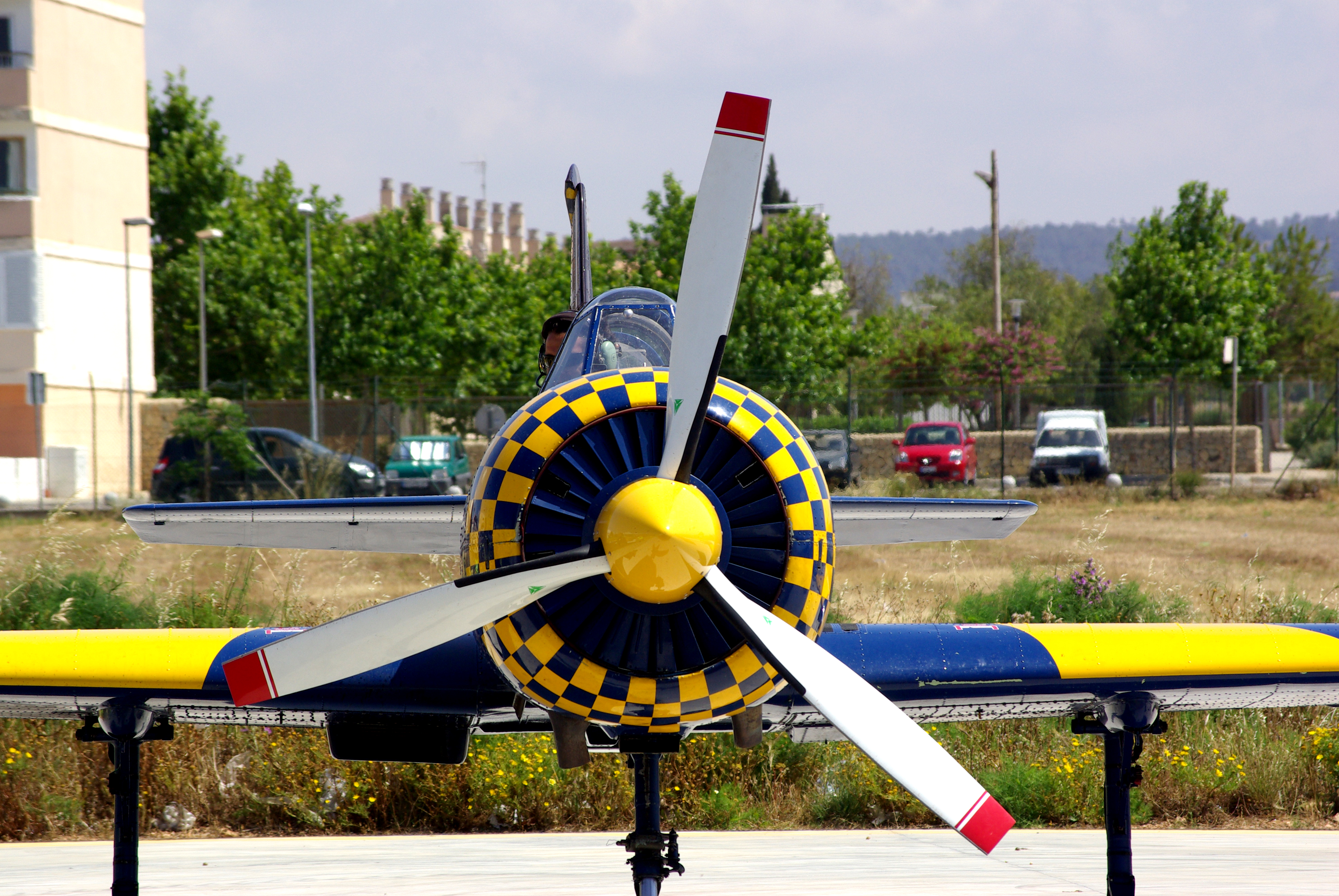 The Jacob 52's Yak-52 registered EC-IAL, parked at the Son Bonet airport, during the first journey of the Malloryak 2008.